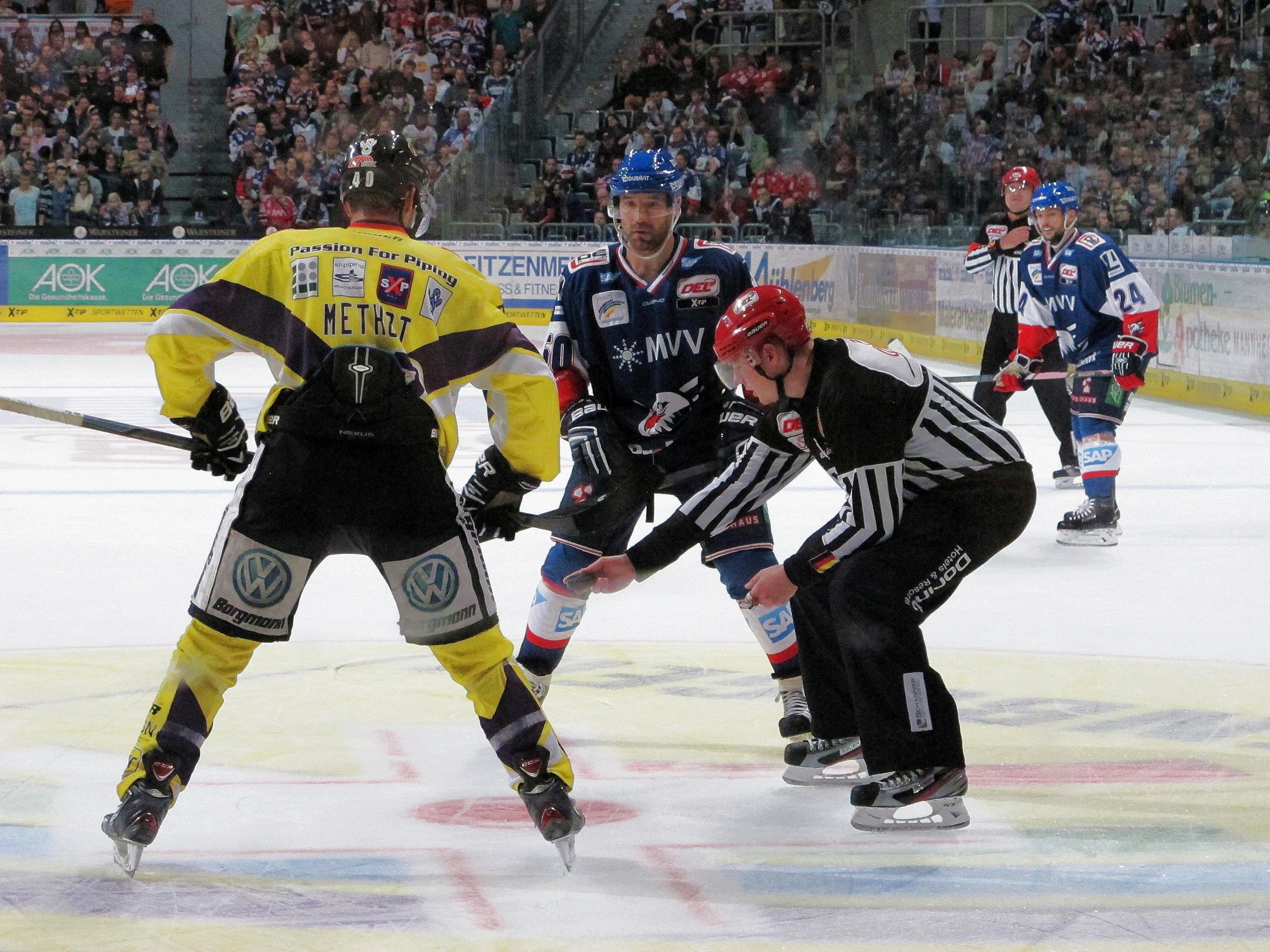 Glen Metropolit, Ice hockey player from Ontario, foward, Adler Mannheim